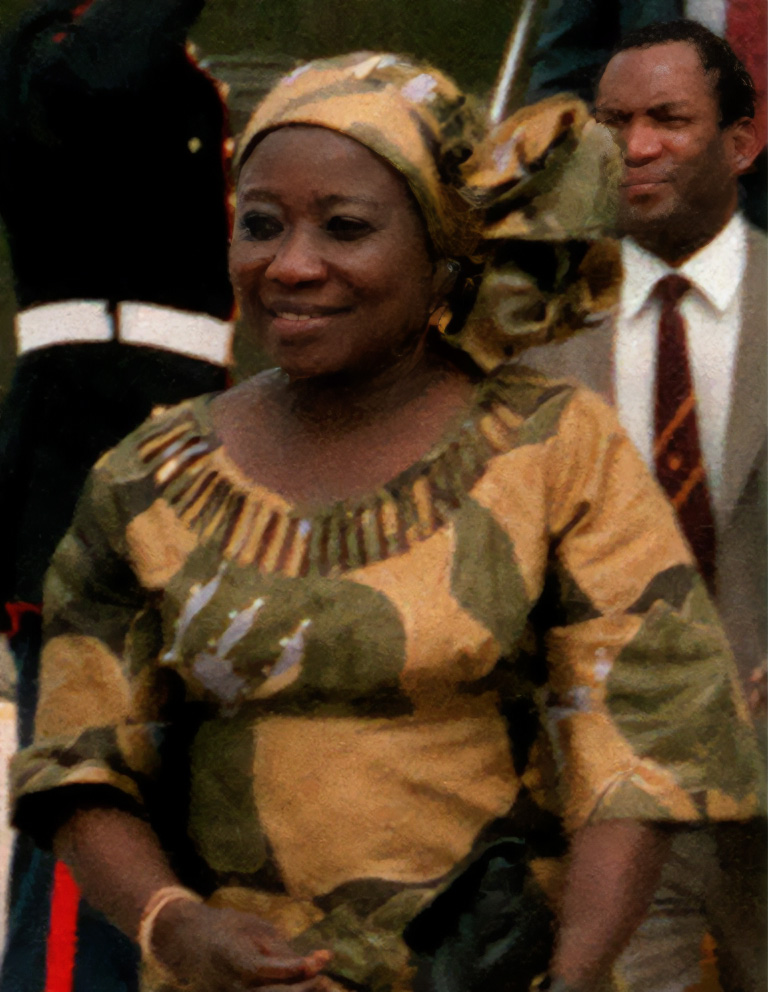 Sally Hayfron departs Andrews Air Force Base after a state visit to the United States.